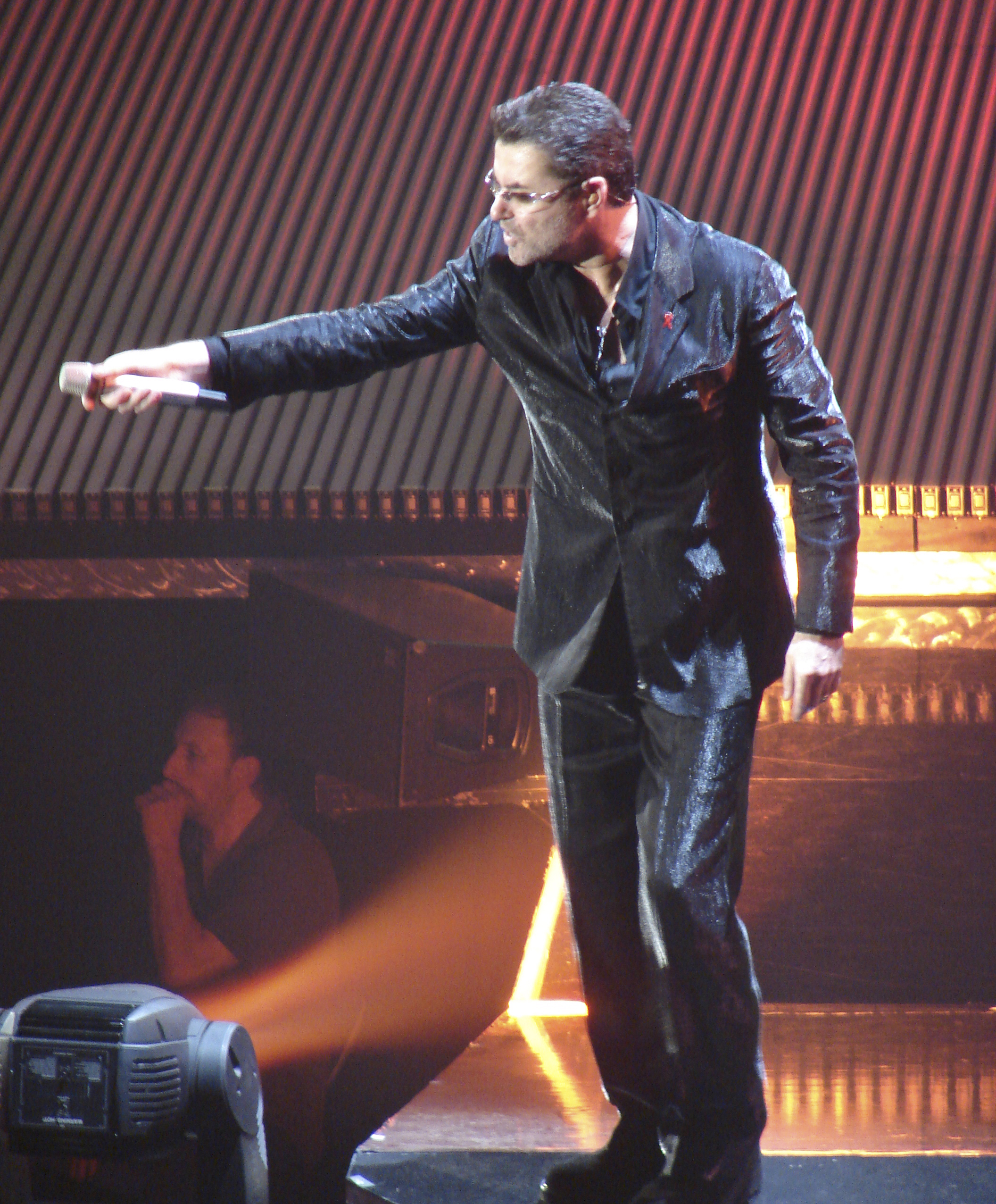 George Michael performing at Antwerps Sportpaleis (Belgium) in 2006, for the 25 Live tour.